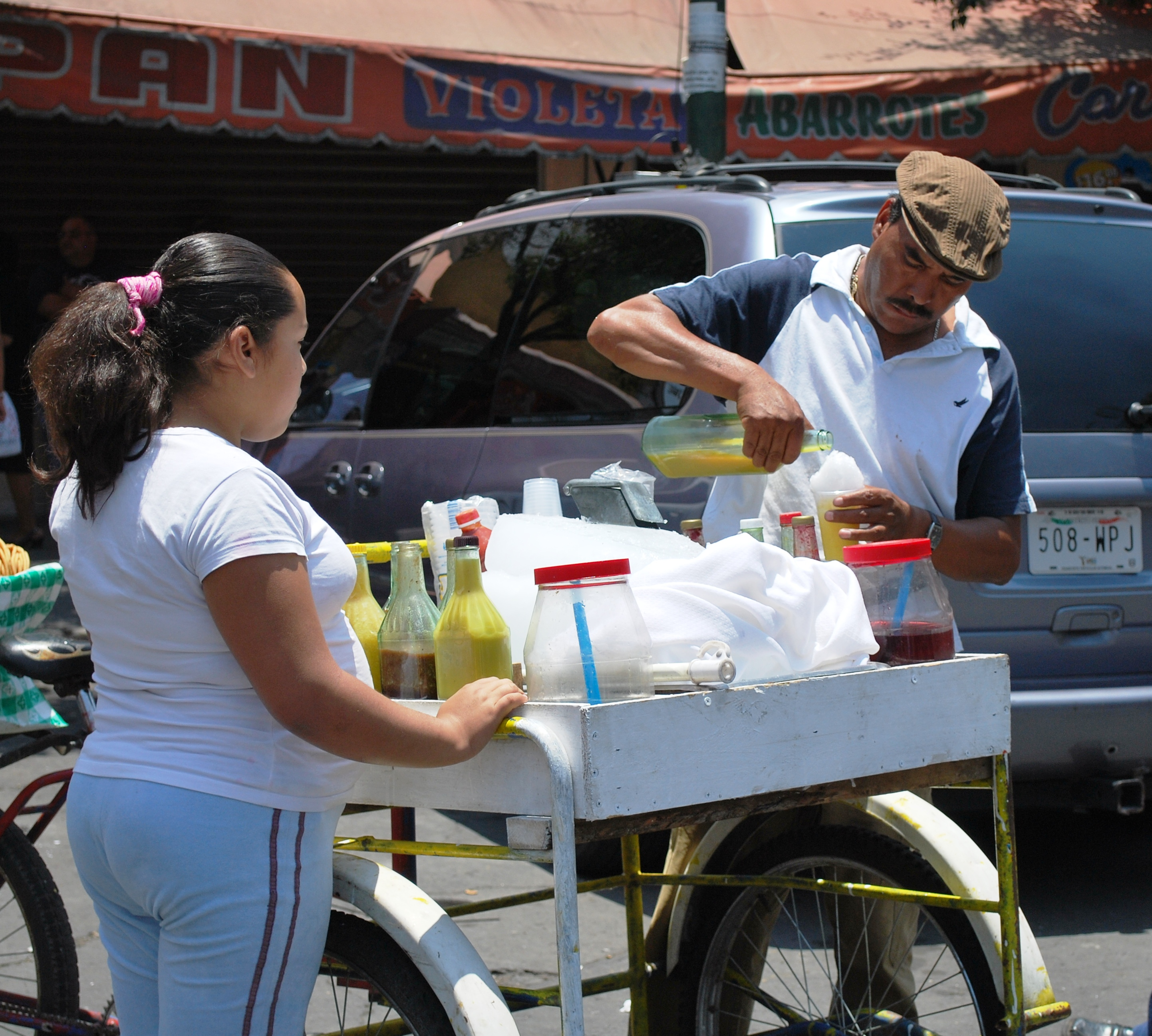 Woman buying a "raspado"(snow cone) with rompope (an egg liqueur) flavoring in Colonia Doctores, Mexico City